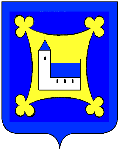 Coat of arms of the municipality of Unsere Liebe Frau im Walde-St. Felix, South Tyrol.